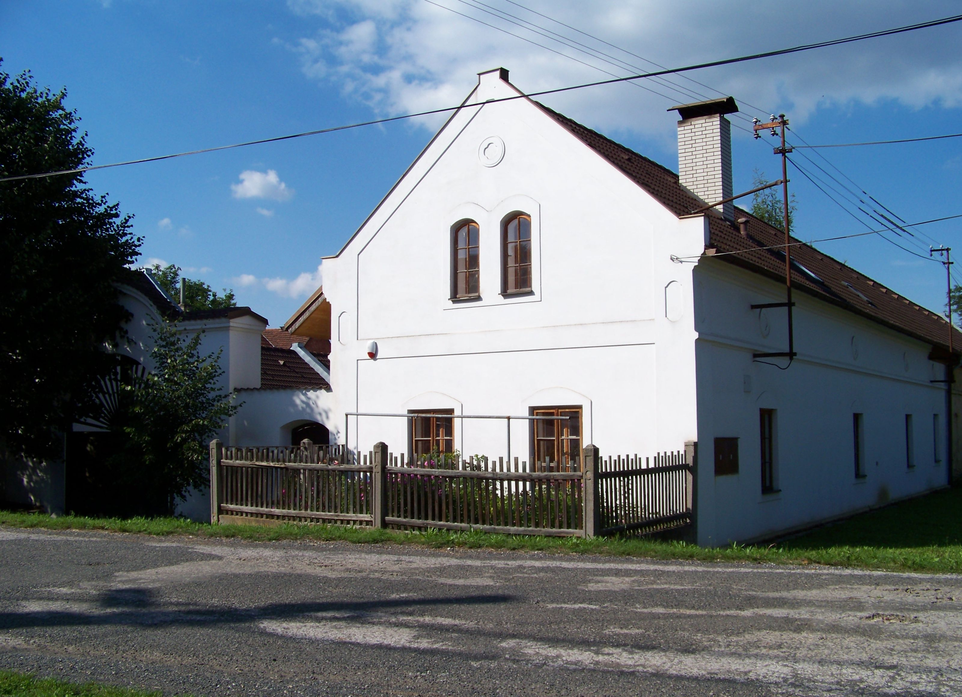 Bavoryně, Beroun District, Central Bohemian Region, the Czech Republic. A farmhouse No. 1.